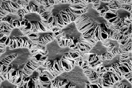 Gore-Tex membrane under an electron microscope. Size of islands about 10µm from Image:Goretex photo.gif